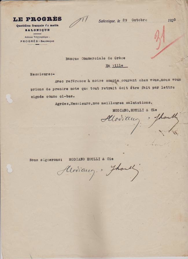 1925 Letter of S. Modiano and J. Houlli